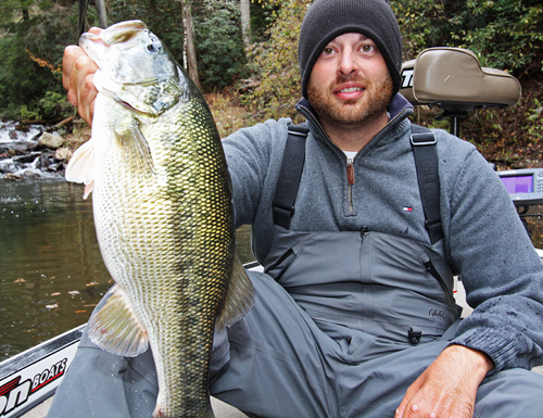 A large Coosa Spotted Bass caught in Carter's Lake, Georgia by professional fishing guide Louie Bartenfield (shown)